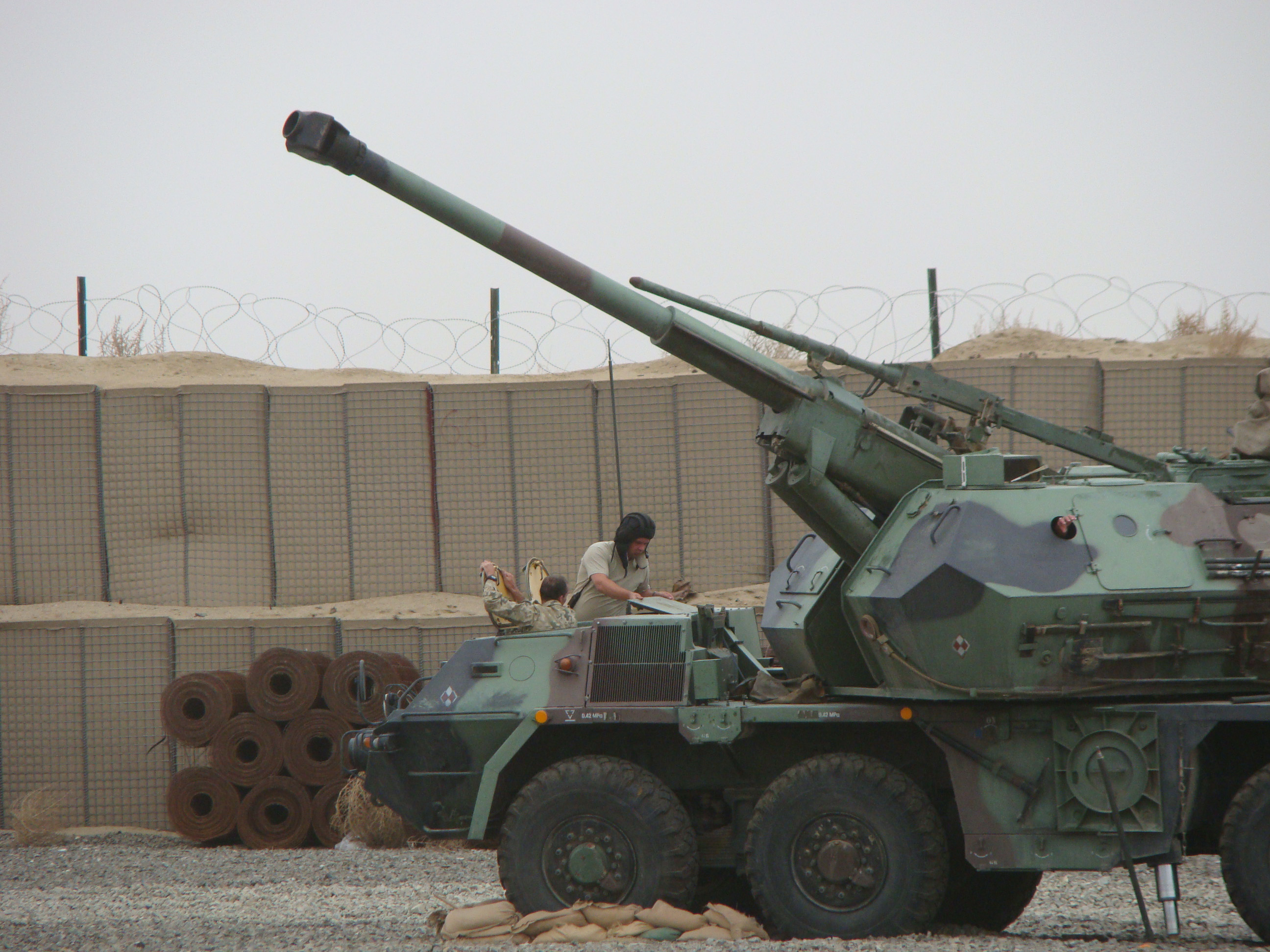 Two Polish Soldiers of the 1st Battery, 23rd Brigade Polish Army, Task Force White Eagle, prepare their 152 millimeter Howitzer during a fire mission at Forward Operating Base Ghazni, April 11, 2010. The mission supported the 172nd Cavalry (CAV) Vermont National Guard. The 172nd CAV working with Afghanistan National Police requested the support when their combined unit came under enemy fire while conducting operations.